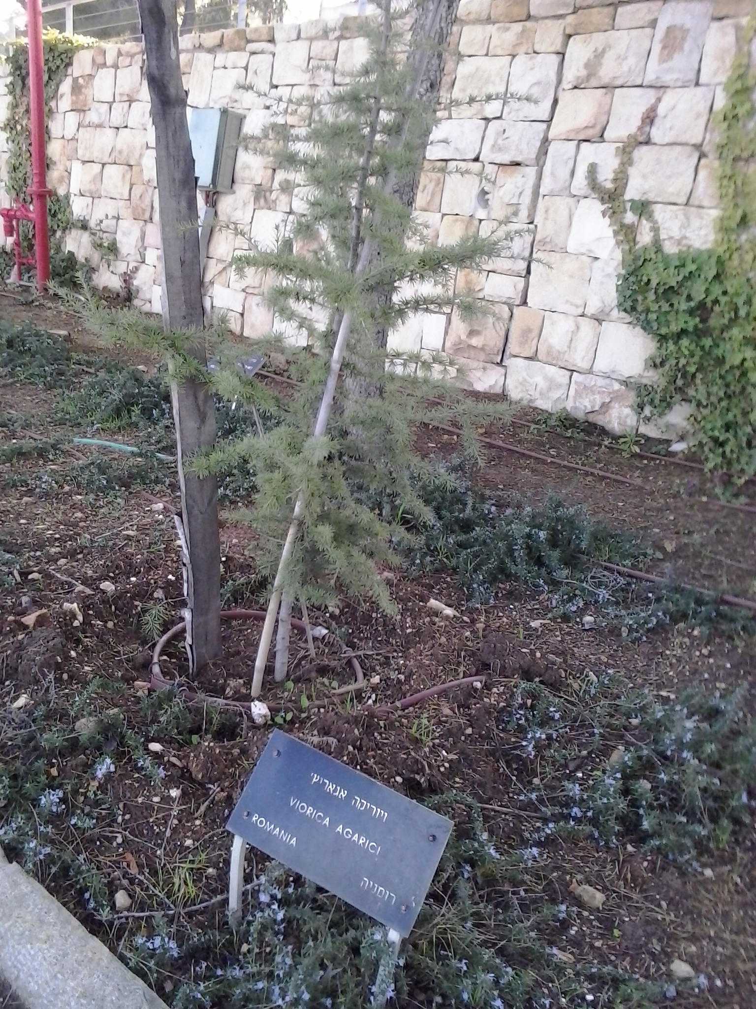 a tree planted at Yad Vashem honoring Agarici